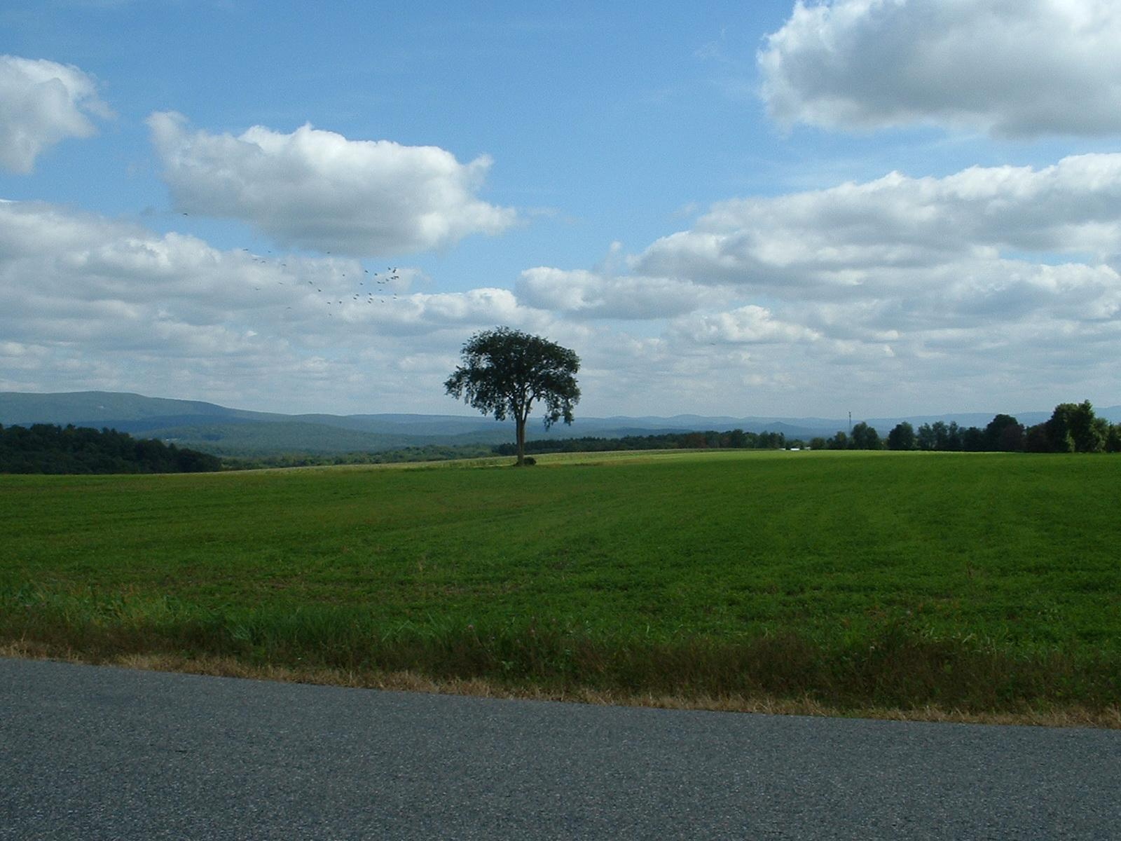 A lone tree sits in Egremont Plain, looking north-eastward towards the southern Berkshires. Baldwin Hill, Egremont Plain, MA